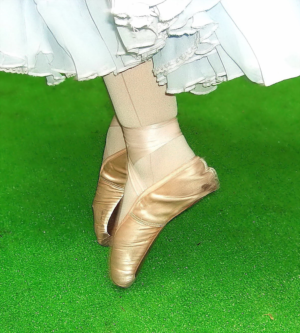 The ballet shoes of a dancer en pointe.